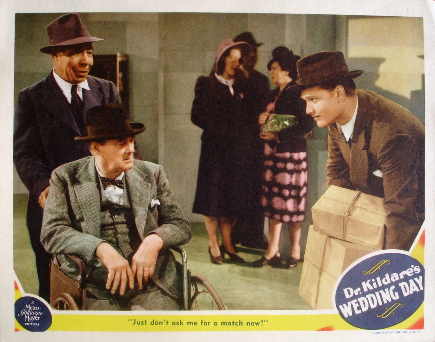 Lobby card for the American drama film Dr. Kildare's Wedding Day (1941). The item has no copyright markings on it as can be seen in the links above. At bottom right is Country of origin USA.